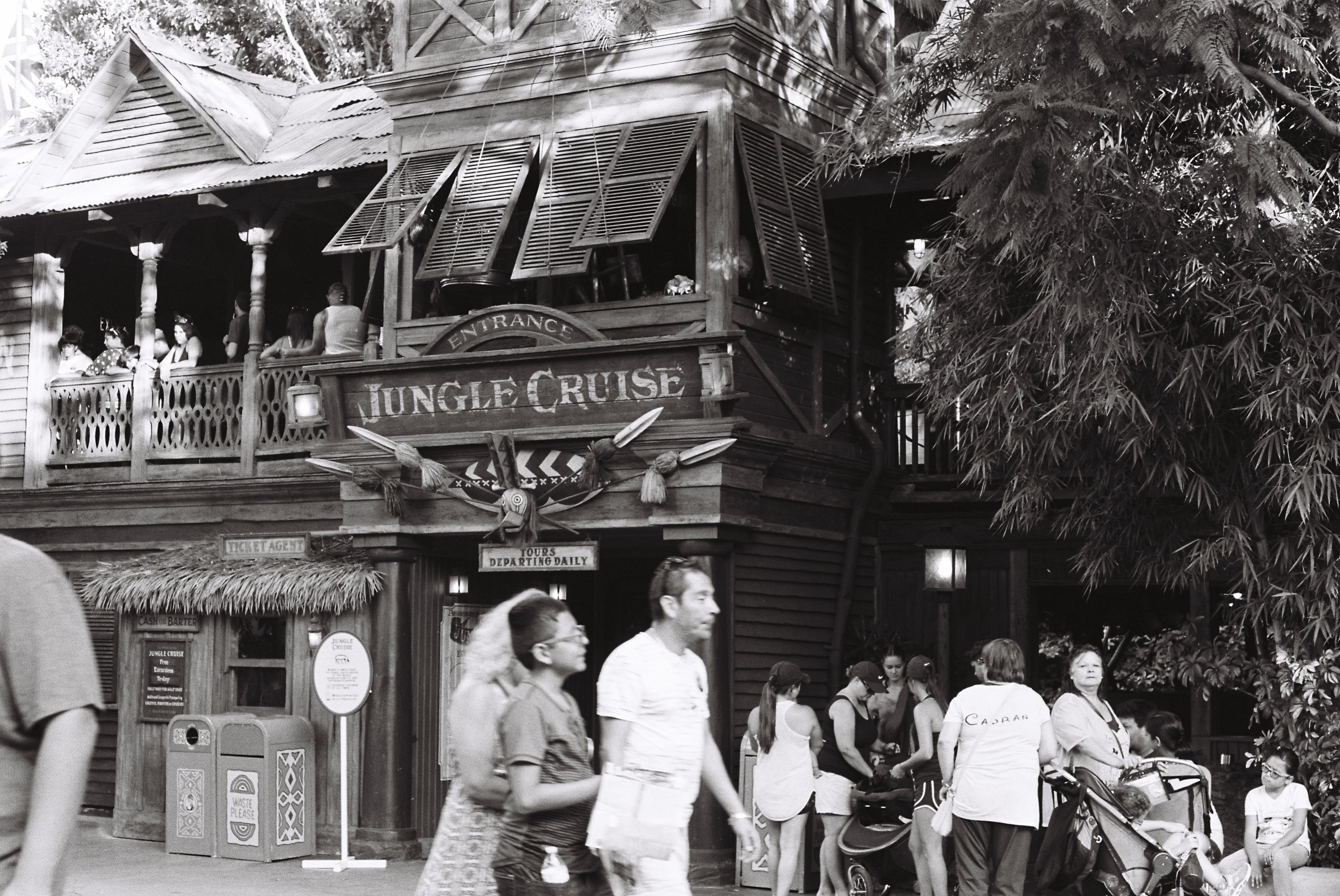 Jungle Cruise at Disneyland Kodak Tri-X 400 film